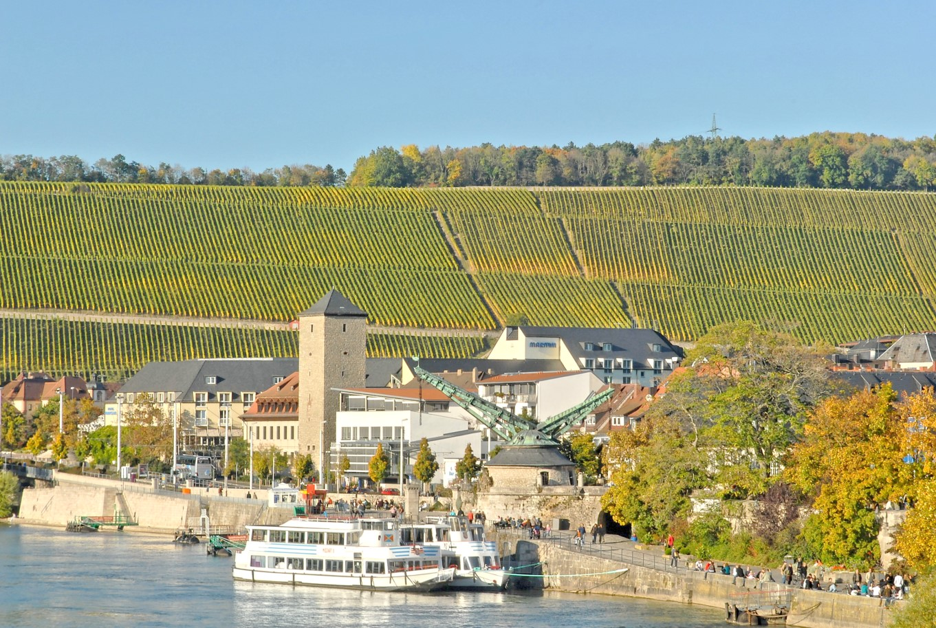 Würzburg, River Main and historic Building "Old Crane" with Vineyard "Am Stein"